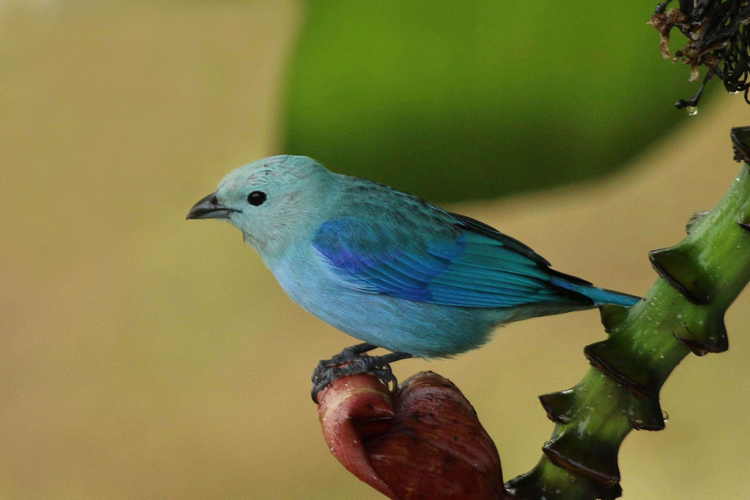 Blue-grey tanager (Thraupis episcopus berlepschi), Tobago